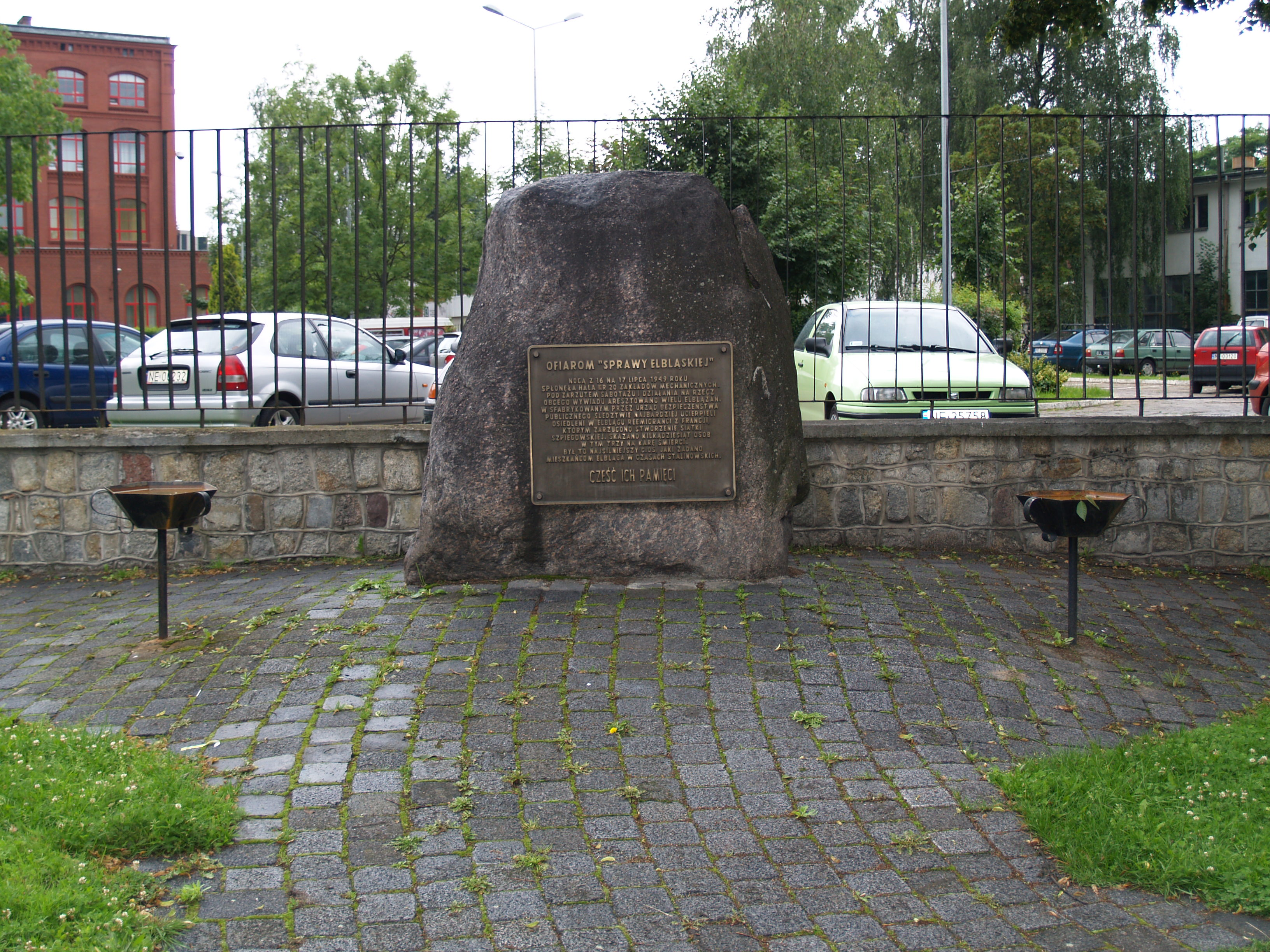 Victims of Elbląg Case Square